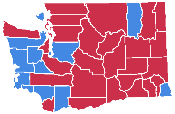 1988 WA senate results by counties